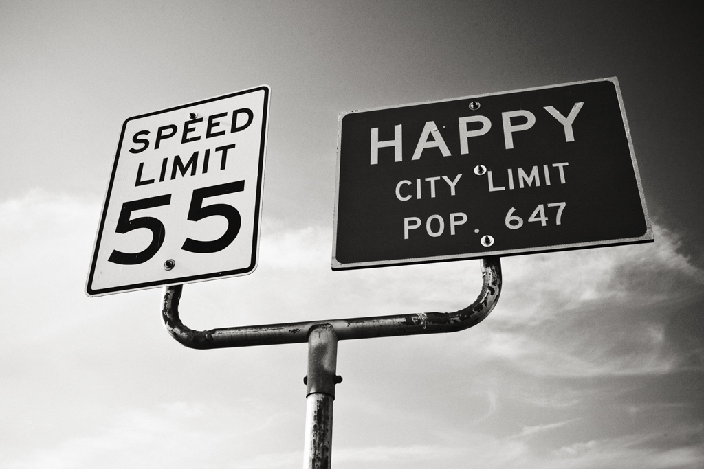 Happy Texas sign